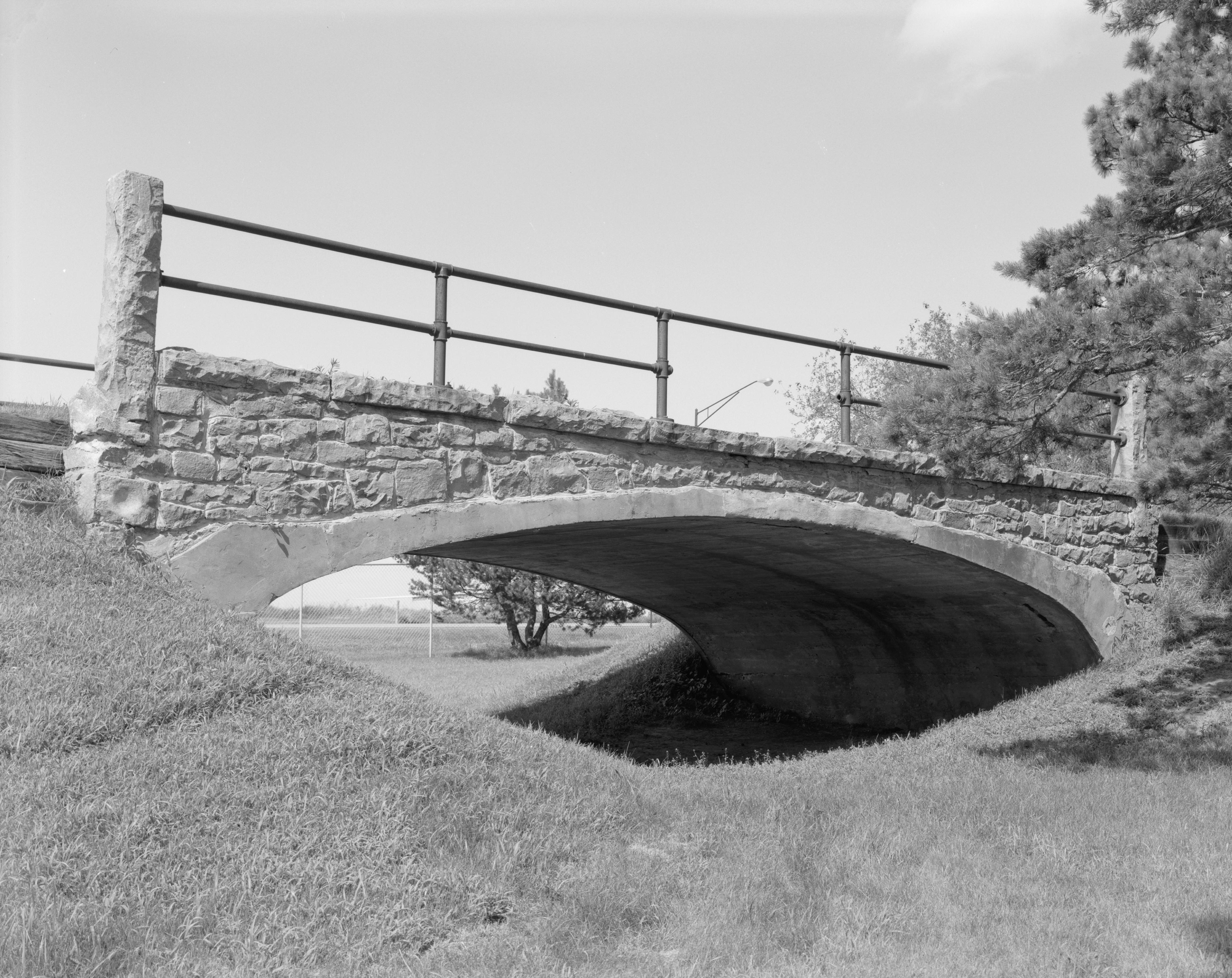 Southern side of the Melan Bridge, located east of Rock Rapids in Lyon County, Iowa, United States. Built in 1893 to carry a road over a small creek, this bridge — among the first to use Josef Melan's reinforced concrete bridge design — has since been moved to Emma Sater Park. It is listed on the National Register of Historic Places.